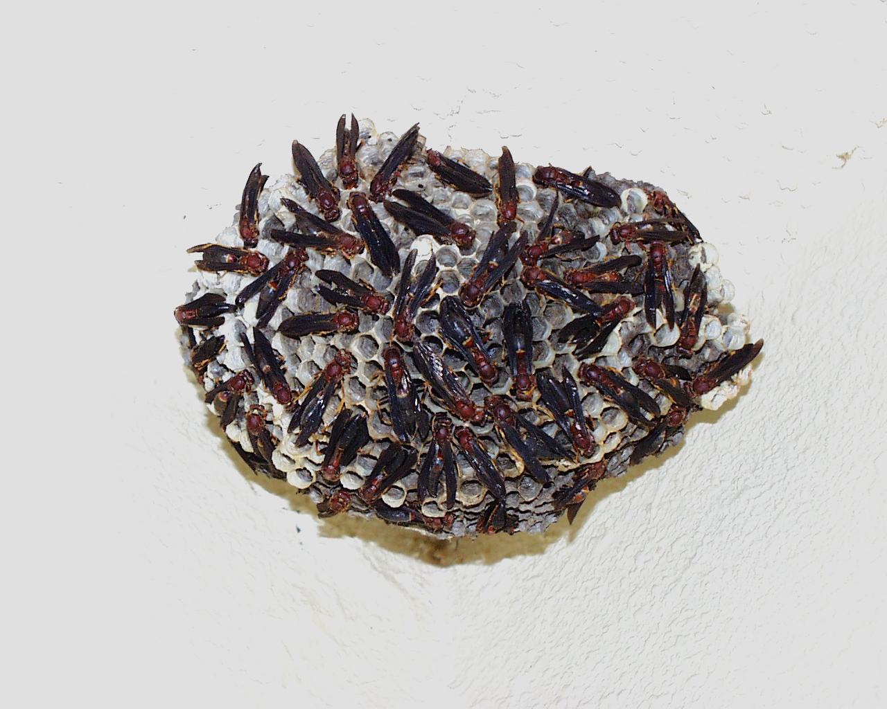 This is a mature red wasp (Polistes annularis) nest which is a part of my personal collection. Photo shot by User:Hornetboy1970 in 2007. For more information on my collection of HUGE nests, please go here